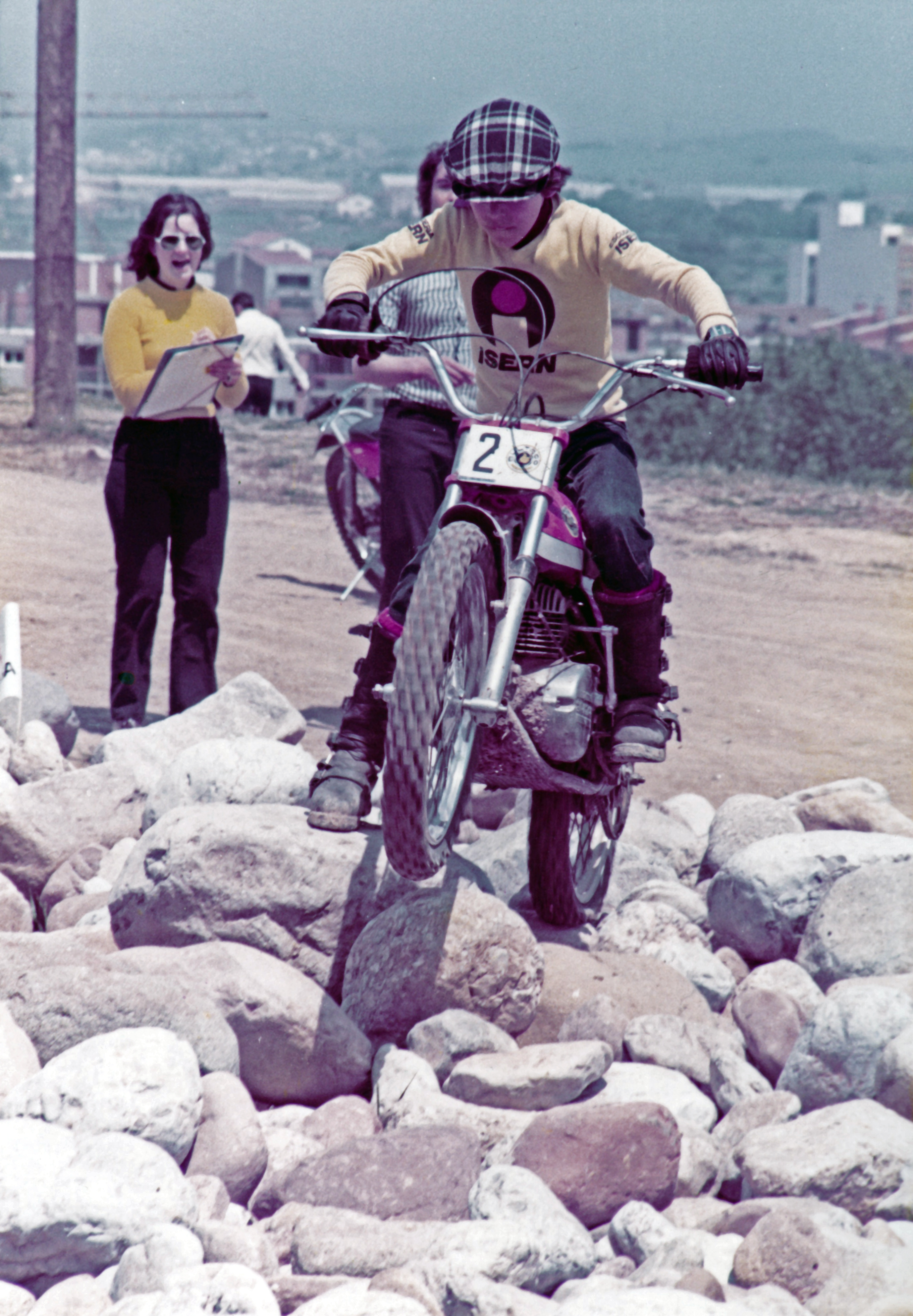 A kid on a Bultaco Tirón in a children course in mid 70s